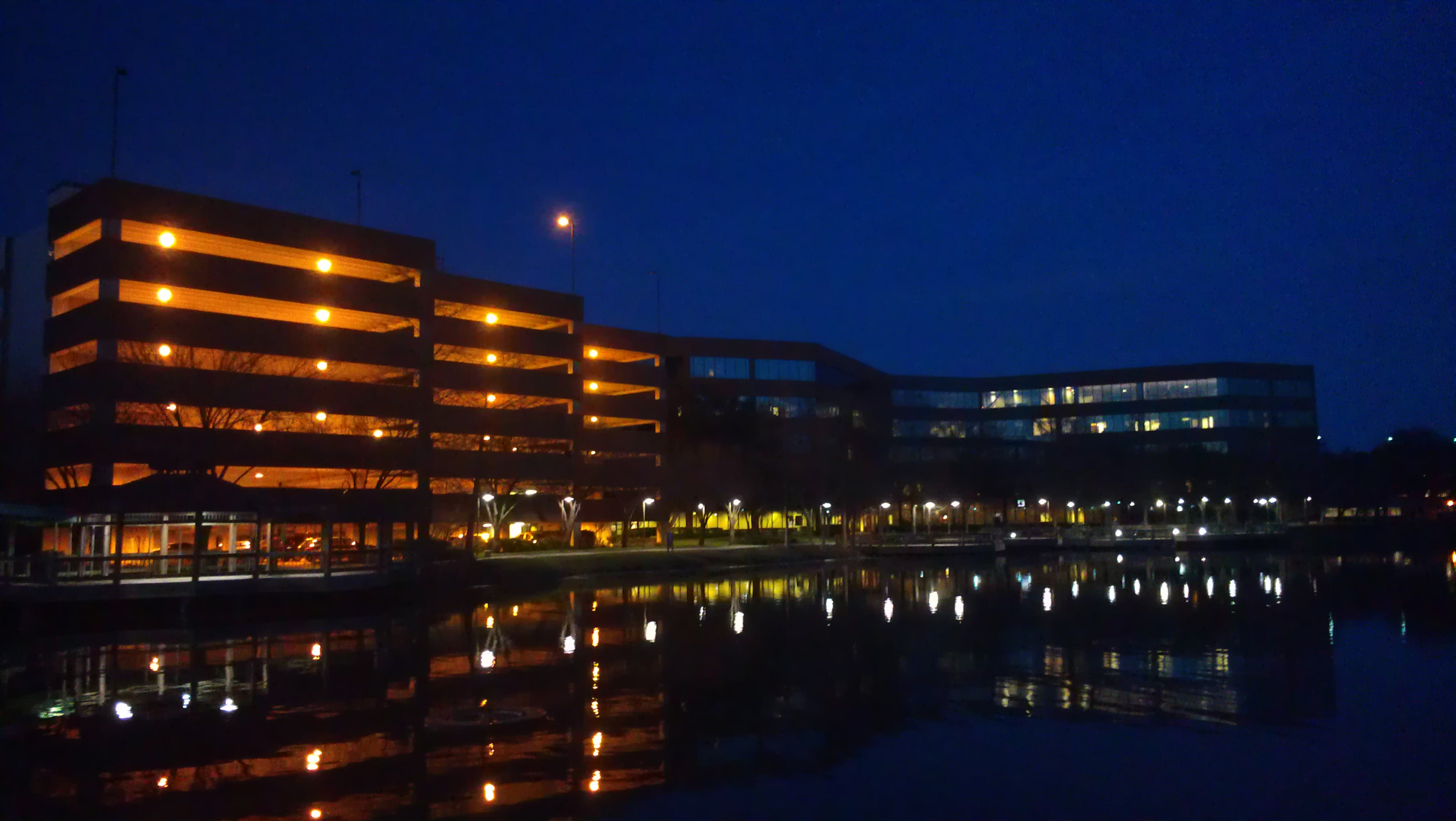 The lake-side of Florida Coastal School of Law at night.